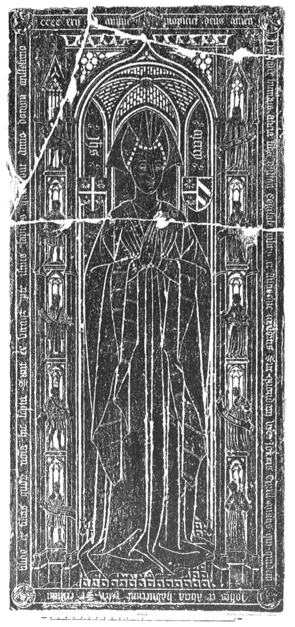 Incised Slab to the memory of Lady Adlice Tyrell AD 1422 in All Saints Church, East Horndon, Essex, from a trade publication, The Builder, volume 61, dates 31 October 1891